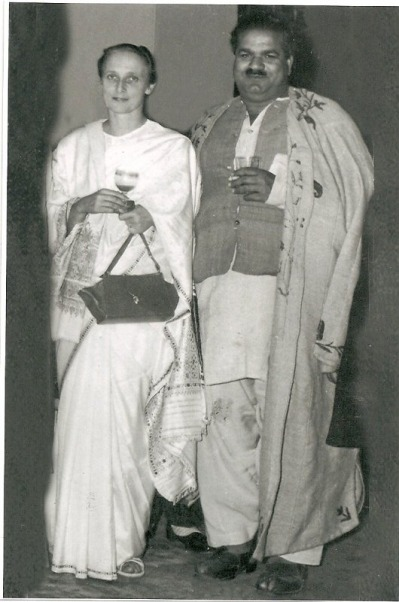 Freda Bedi and Baba Pyare Lal Bedi, at Nishat Bagh, one of the Mughal gardens in Srinagar, in 1948, at a garden party hosted by Sheikh Abdullah.